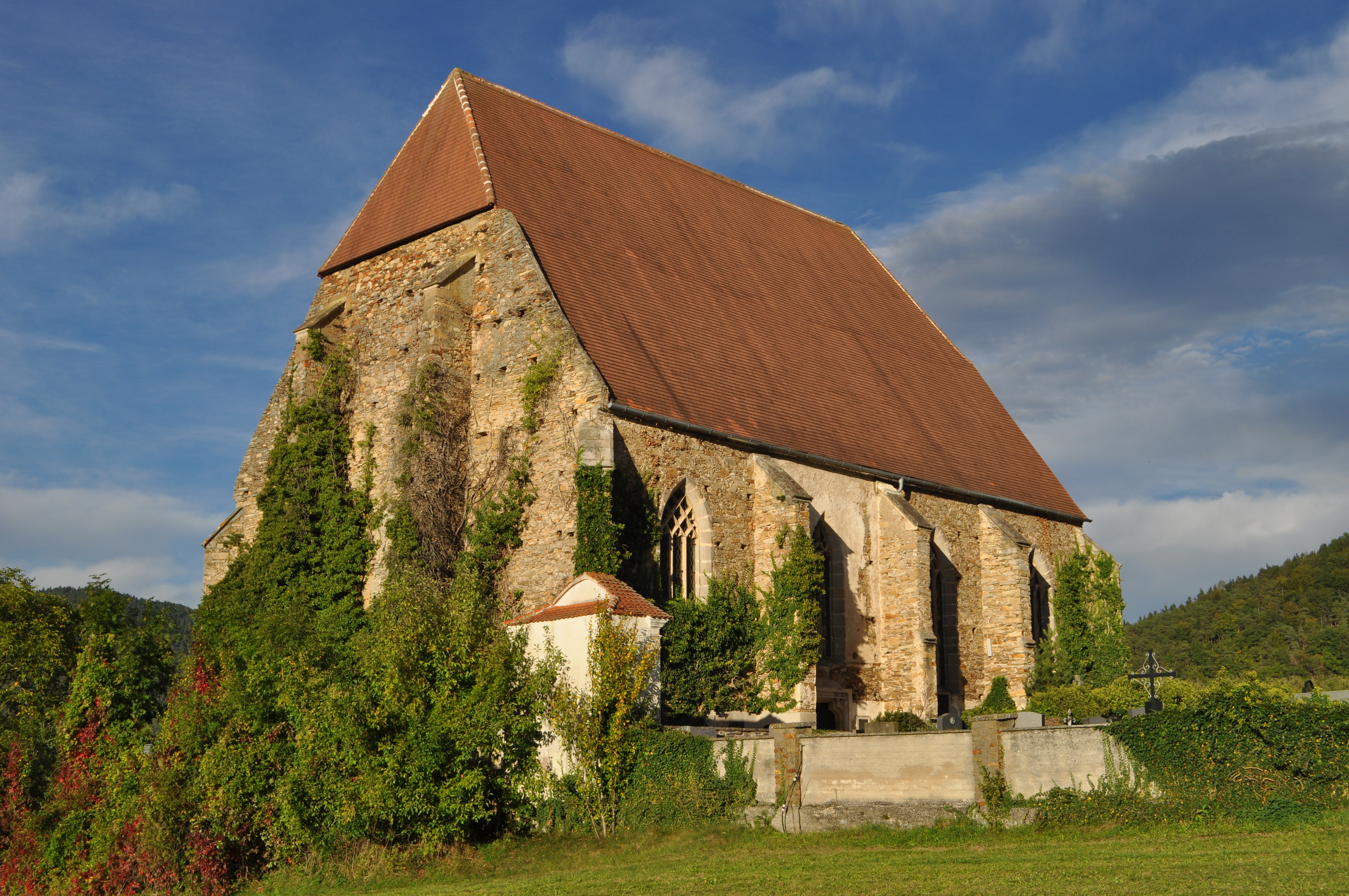 Branch Church of St. Anna im Felde at Pöggstall, District Melk, Lower Austria